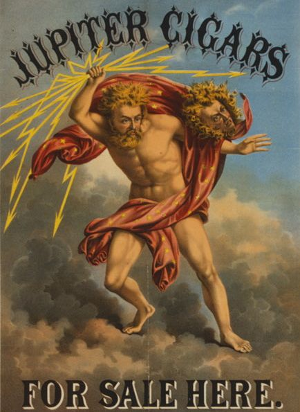 Tobacco label showing Jupiter holding bolt of lightning, package label for Jupiter Cigars, a brand marketed by the firm of Schroeder & Bon (c. 1868). See Frederick A. Schroeder